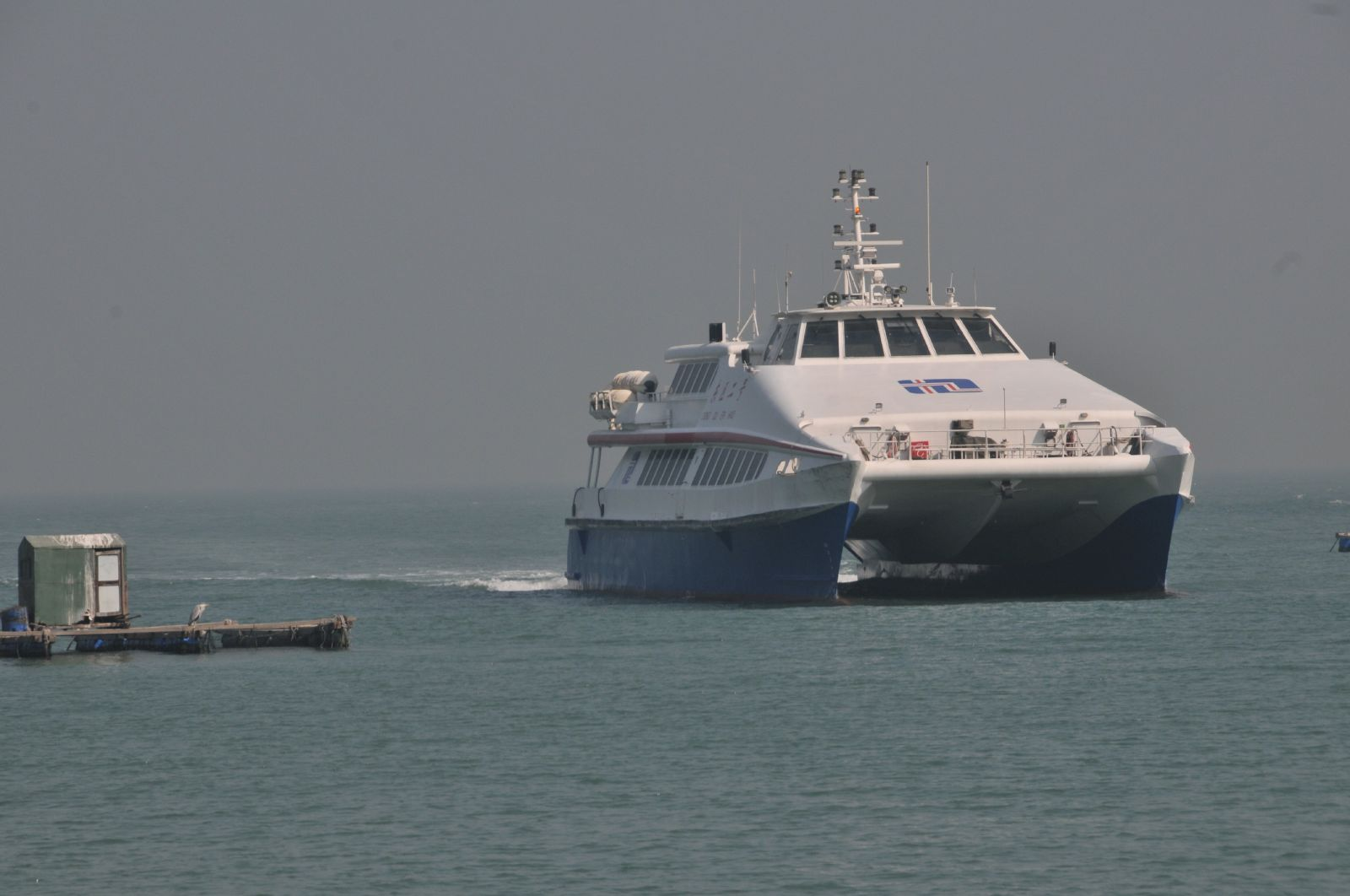 Ferry Dongqu 2. It sails between Tung O Island (in Maan Saan Islands) and Heungchau in Kwangtung. 粵語: 渡輪「東區二號」，來往香洲同東澳島。